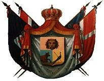 Coat of Arms of the Principality of Samos (1832-1912)